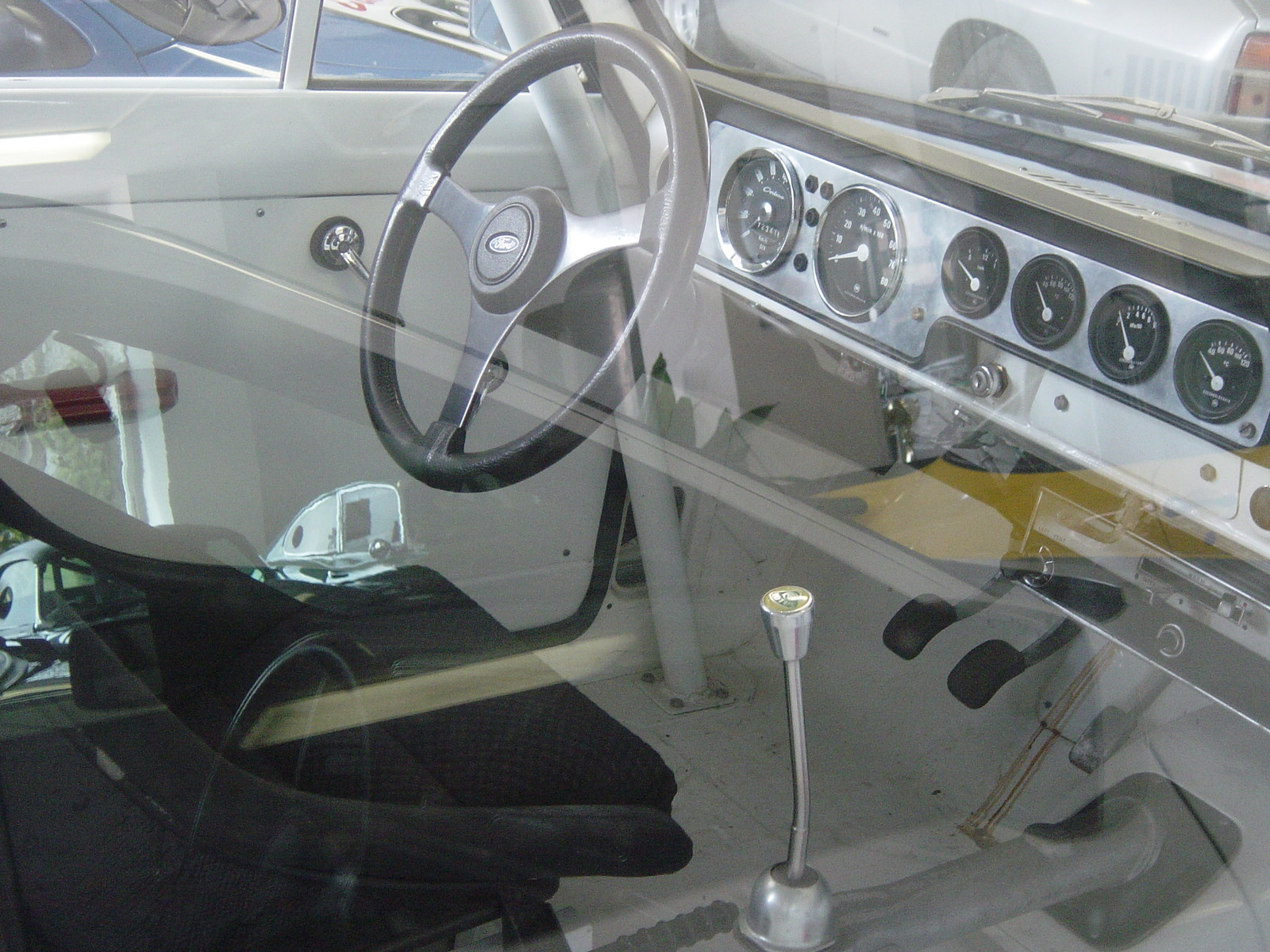 Ford Lotus Cortina